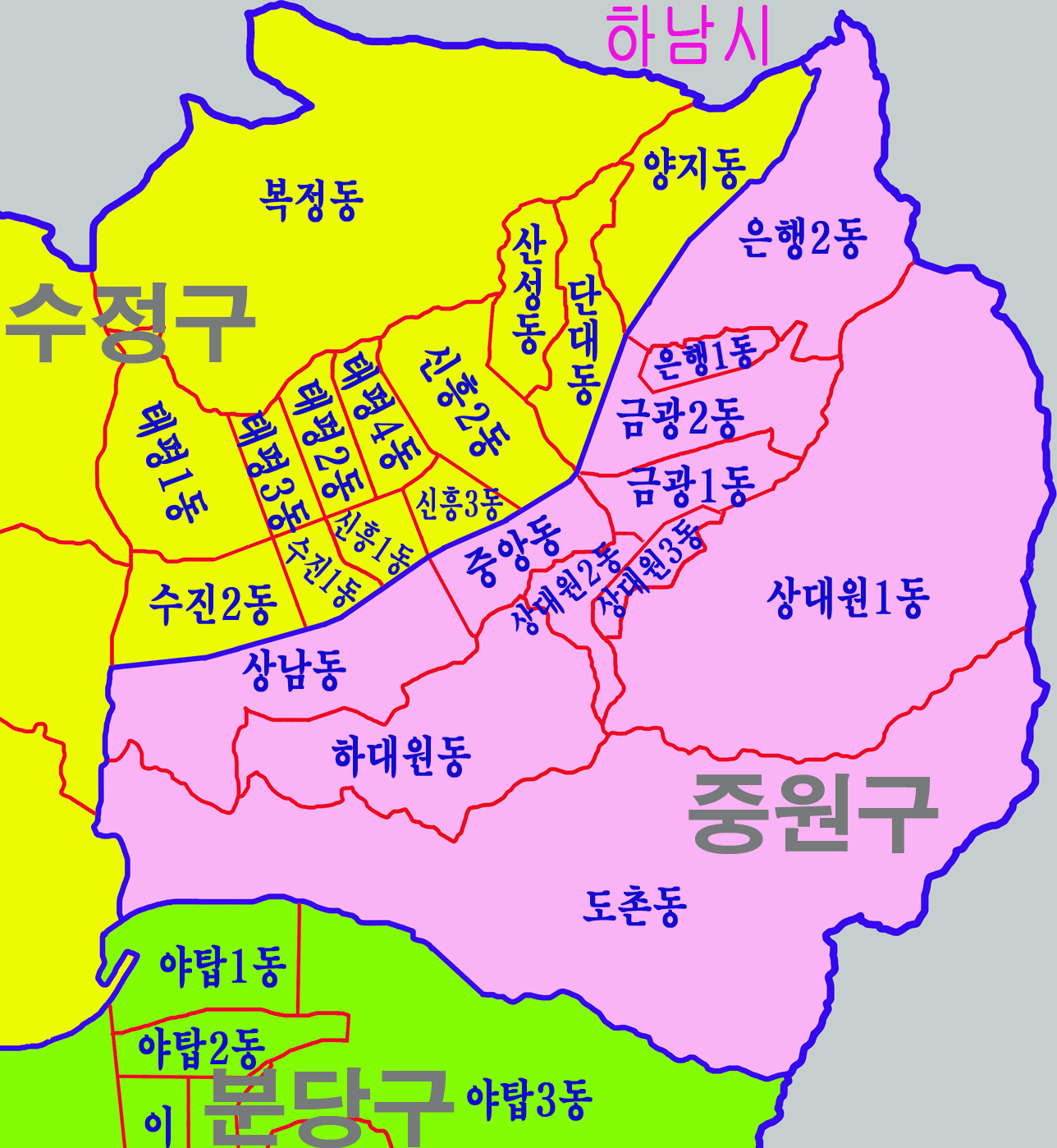 Jungwon-gu, Seongnam-si, Gyeonggi-do